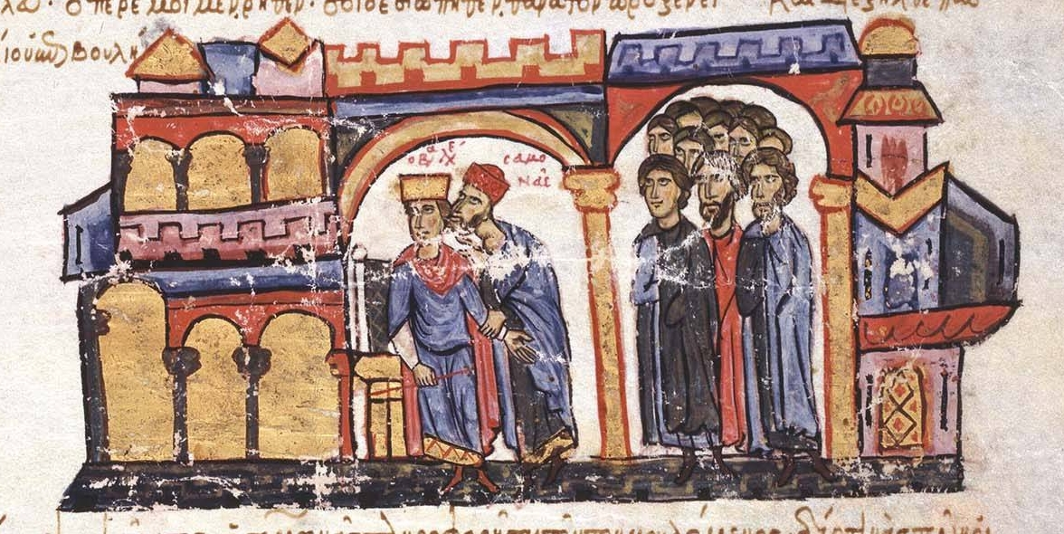 The eunuch Samonas informs the Emperor Leo of a plot by the epeiktes Basileios to kill him